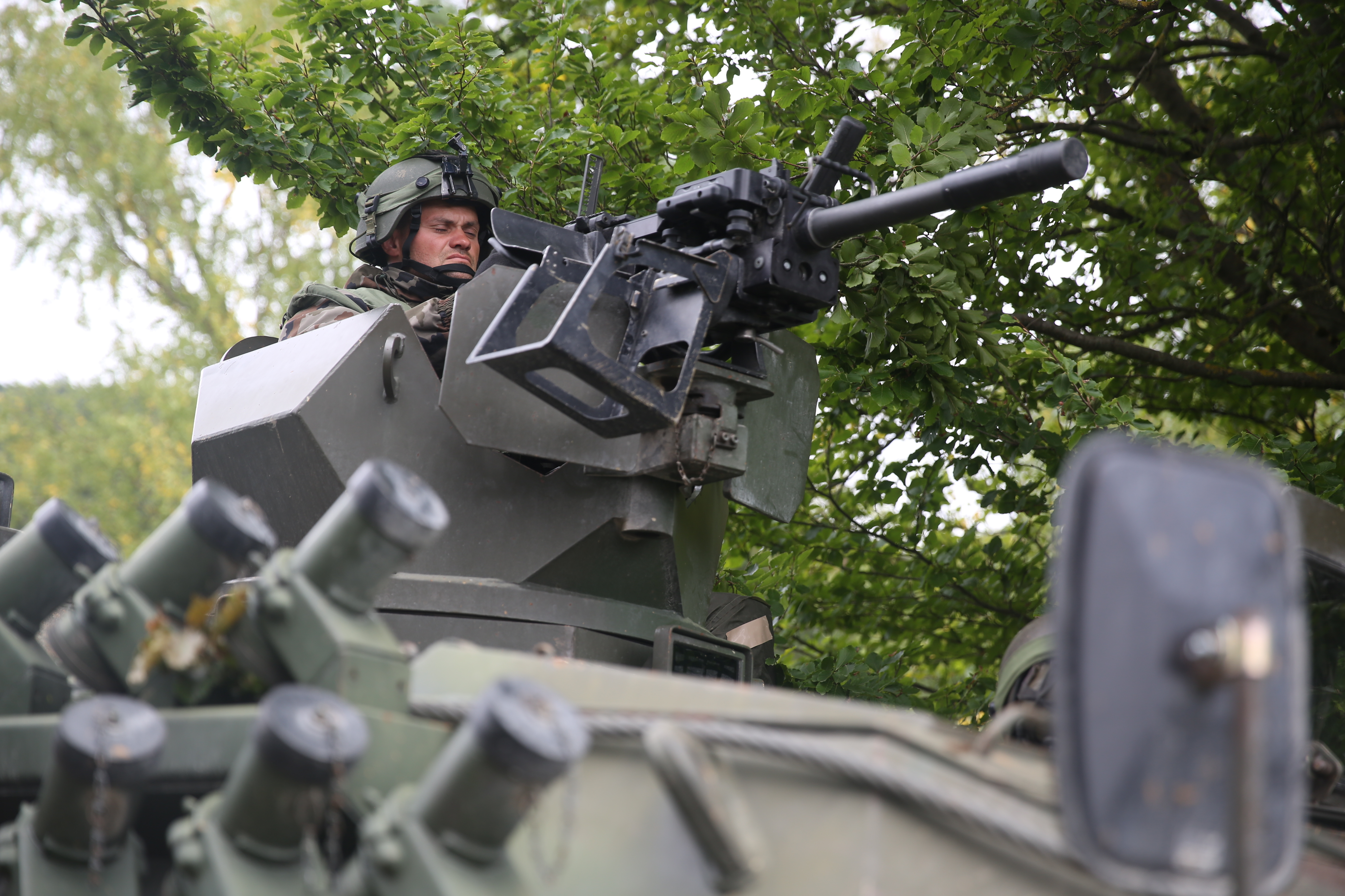 A Slovenian soldier provides security Sept. 2, 2014, during Saber Junction 2014 at the Joint Multinational Readiness Center in Hohenfels, Germany. Saber Junction is a U.S. Army Europe-led exercise designed to prepare U.S., NATO and international partner forces for unified land operations.